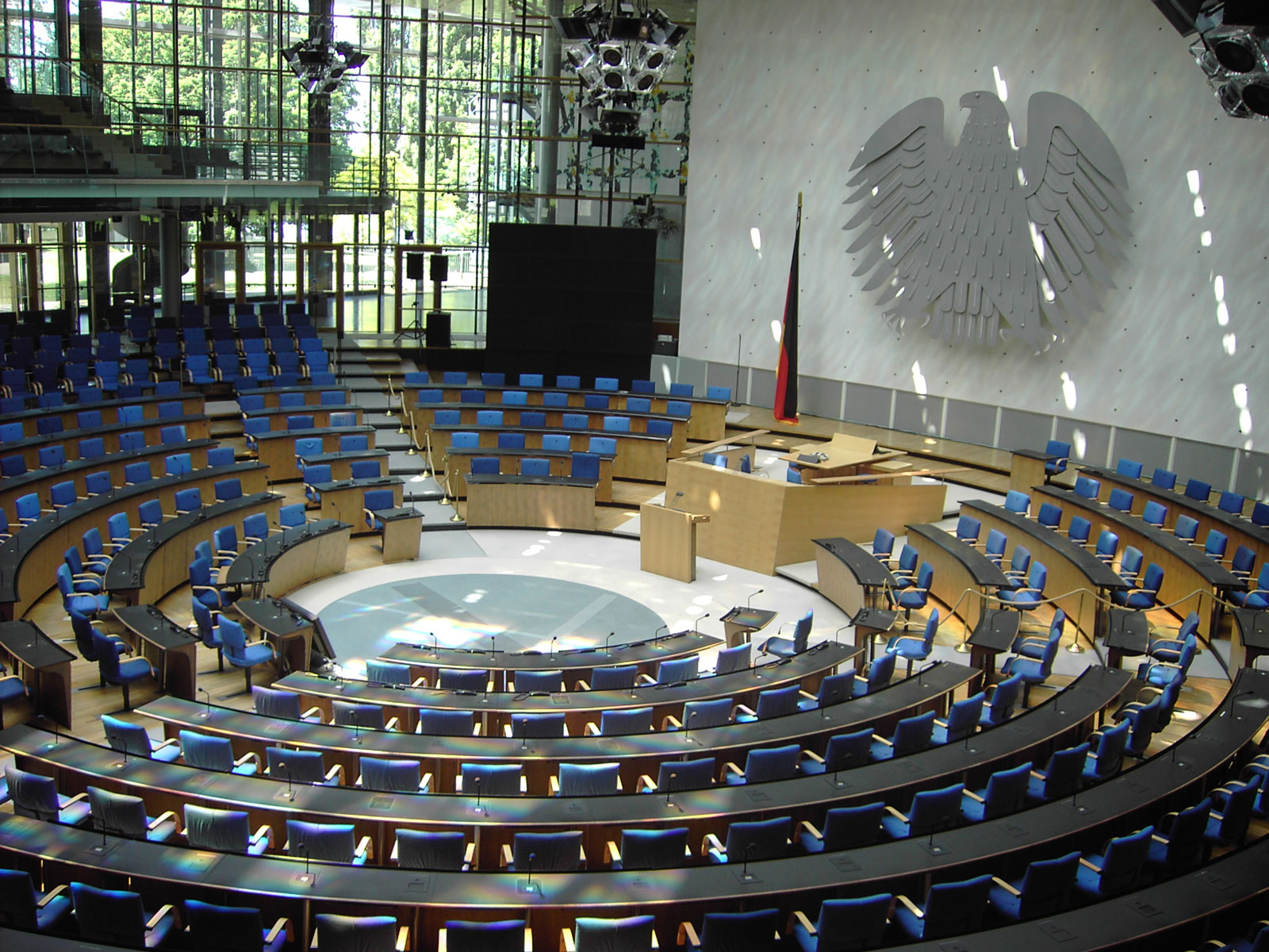 New Bundestag plenary chamber in Bonn.